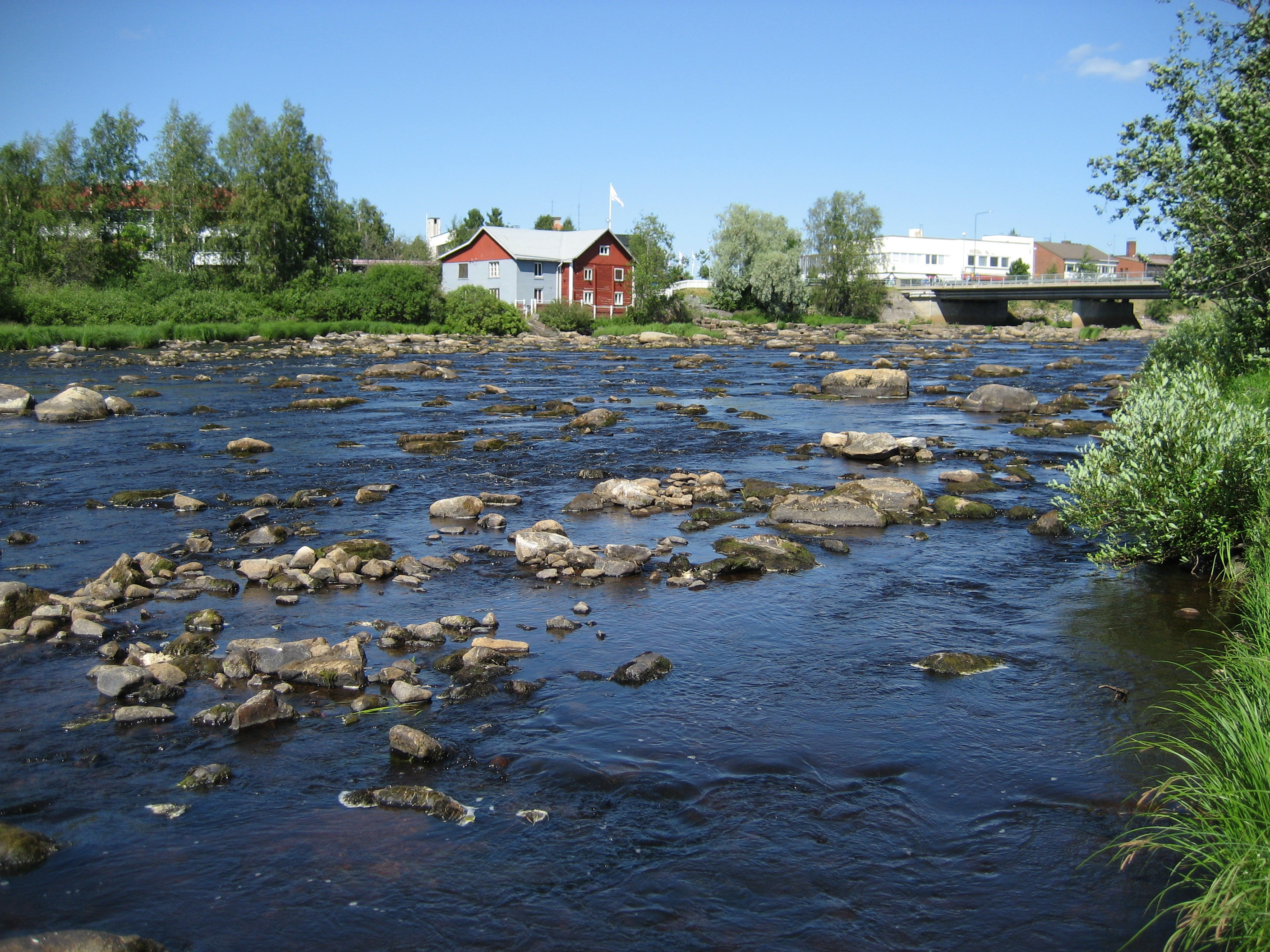 Rapids at Oulainen, Finland and the Oulainen Mill